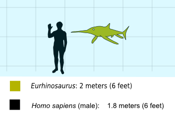 A comparison of the body sizes between an Eurhinosaurus and an adult male human.